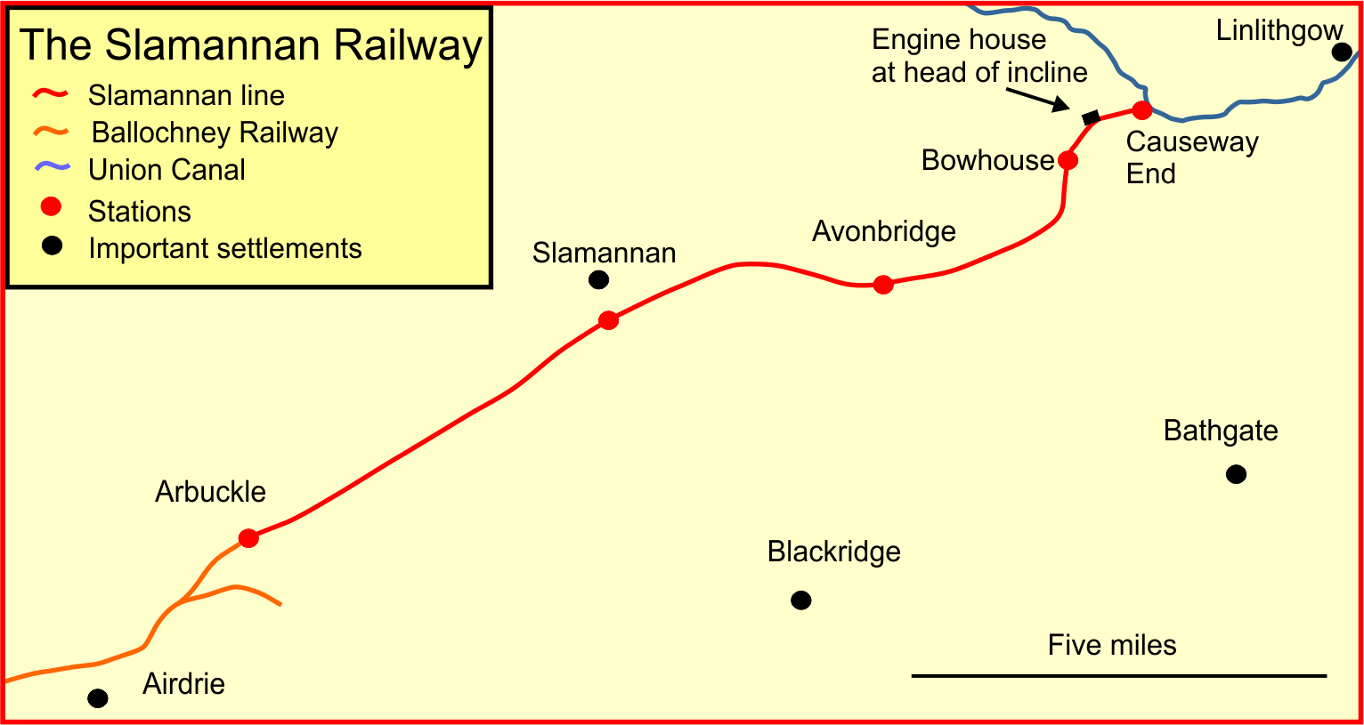 Map of the Slamannan Railway, Scotland